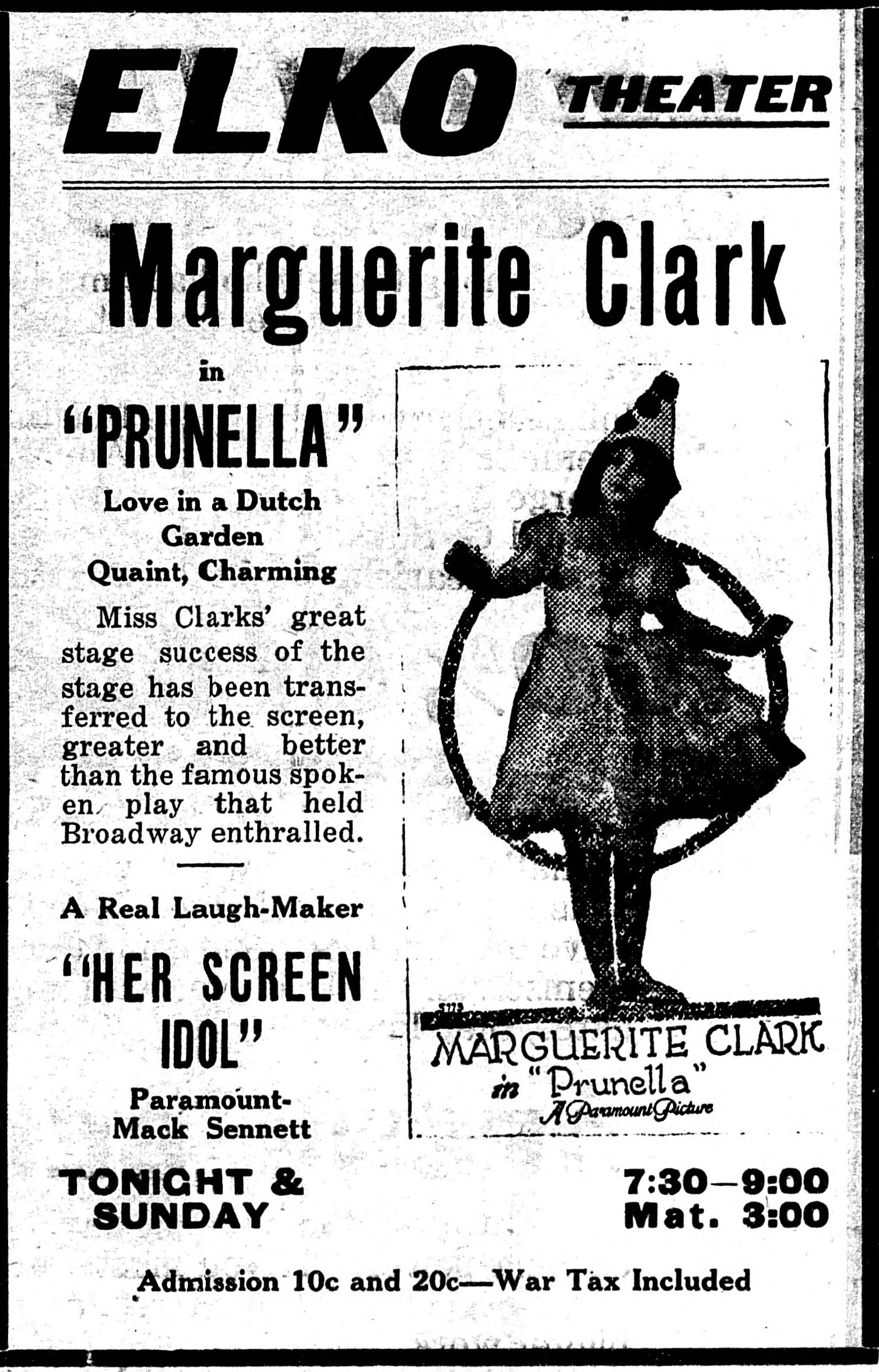 Prunella is a 1918 American silent romantic fantasy film directed by Maurice Tourneur. This is a newspaper advertisement.